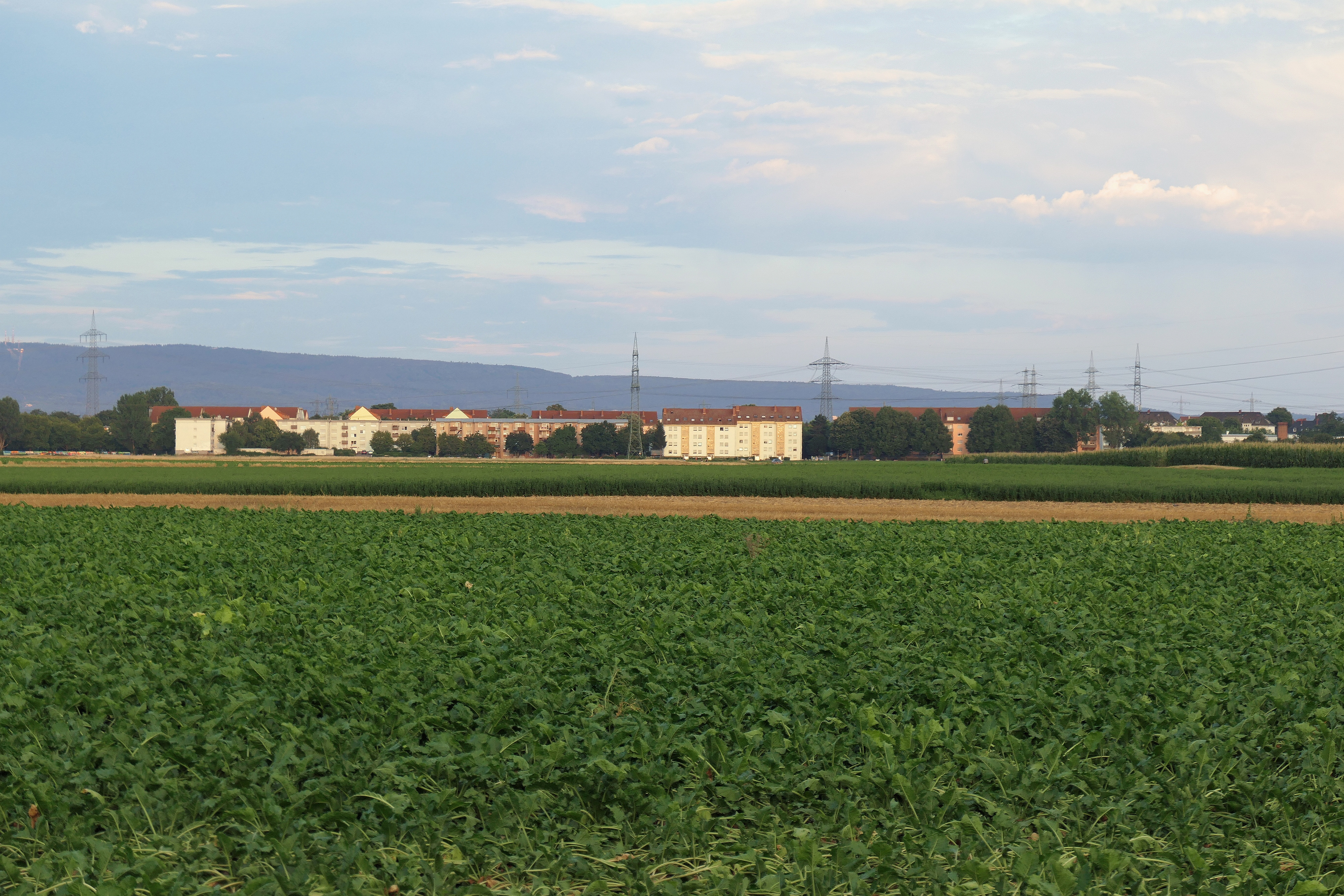 Mannheim-Hochstätt, district of Mannheim, view from SAP-Arena over Kloppenheimer field